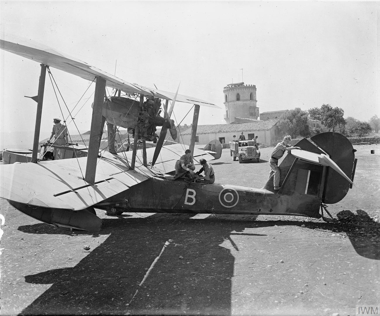 Royal Air Force- Italy, the Balkans and South-east Europe, 1942-1945. Supermarine Walrus, X9498 'B', of No. 284 Squadron RAF undergoing maintenance at Cassibile, Sicily. Parked behind them and partly obscured is Hawker Hurricane Mark IIC, KW980, of the Mediterranean Air Command Communications Unit based at Maison Blanche, Algeria, while in the background can be seen the medieval tower which served as the airfield control tower.